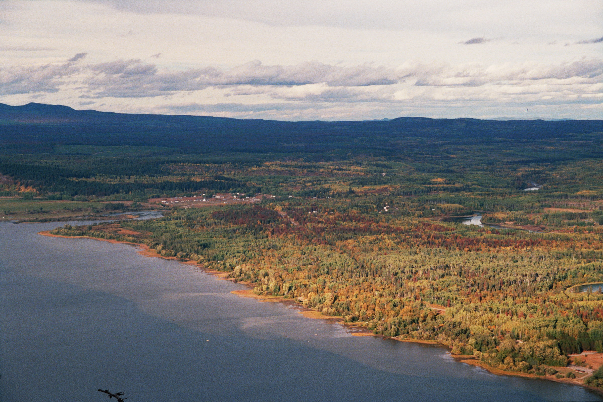 Nadleh Whut'en First Nation and Fraser Lake, view from Mt. Fraser